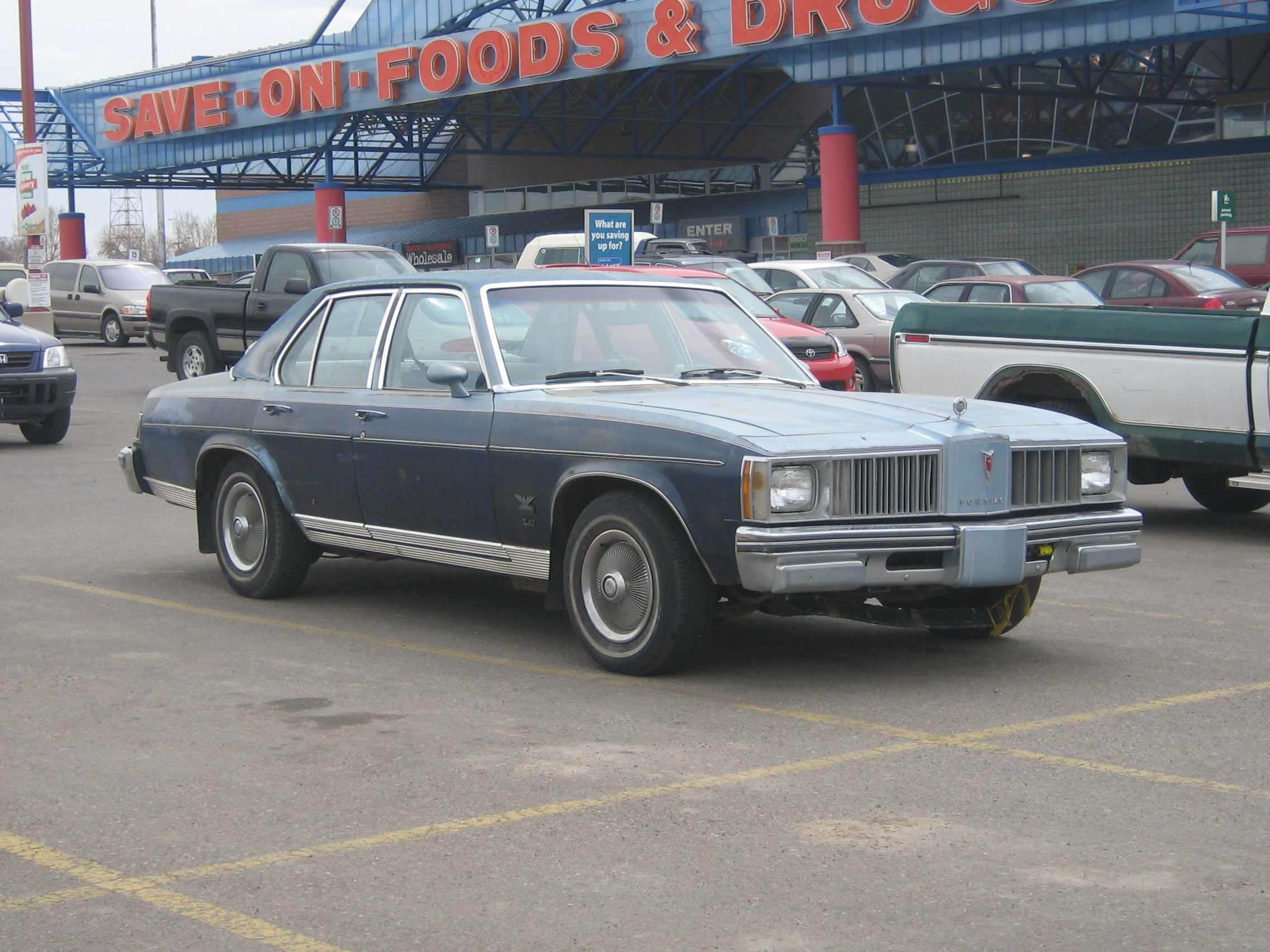 Pontiac Phoenix based on the Chevrolet Nova